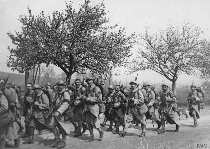 The German Spring Offensive, March-july 1918 French Infantry going up to the line near Ribecourt, 3 May 1918.